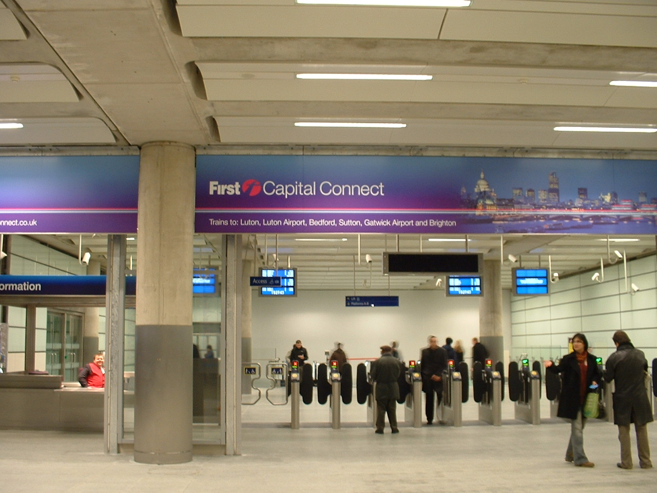 Entrance to the low-level Thameslink platforms at St. Pancras International